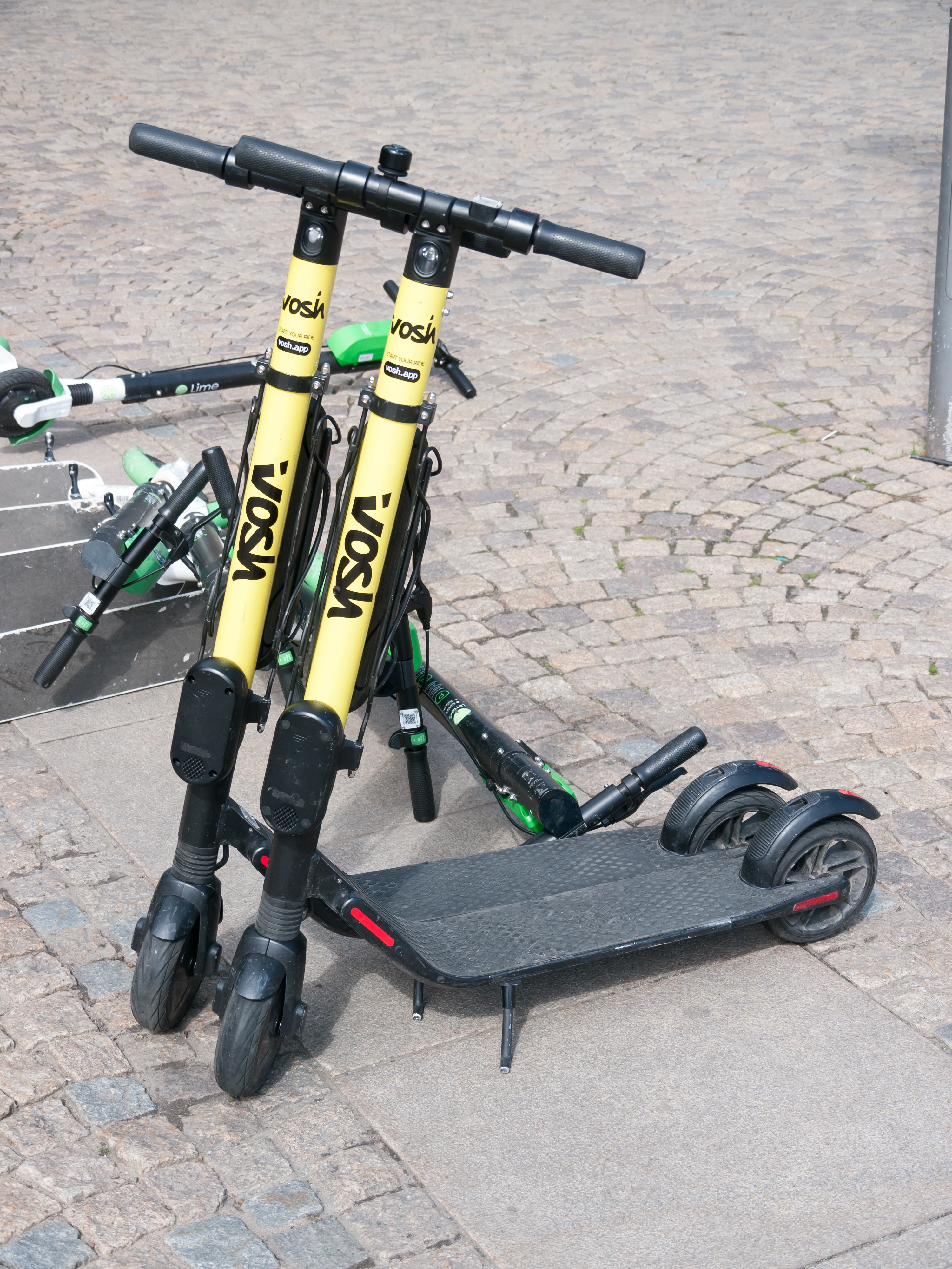 Vosh scooter in Stockholm